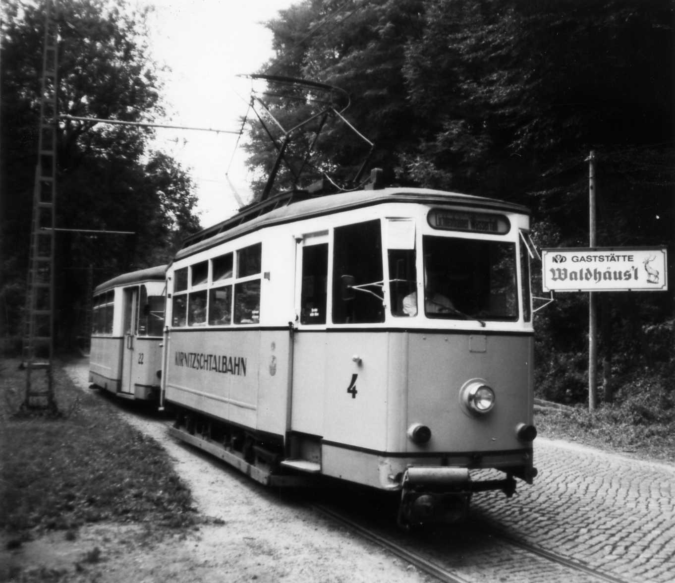 The tram is travelling towards Lichtenhainer Waßerfall. No 4 is a is a 1963 ex-Leipzig Gotha waggon.